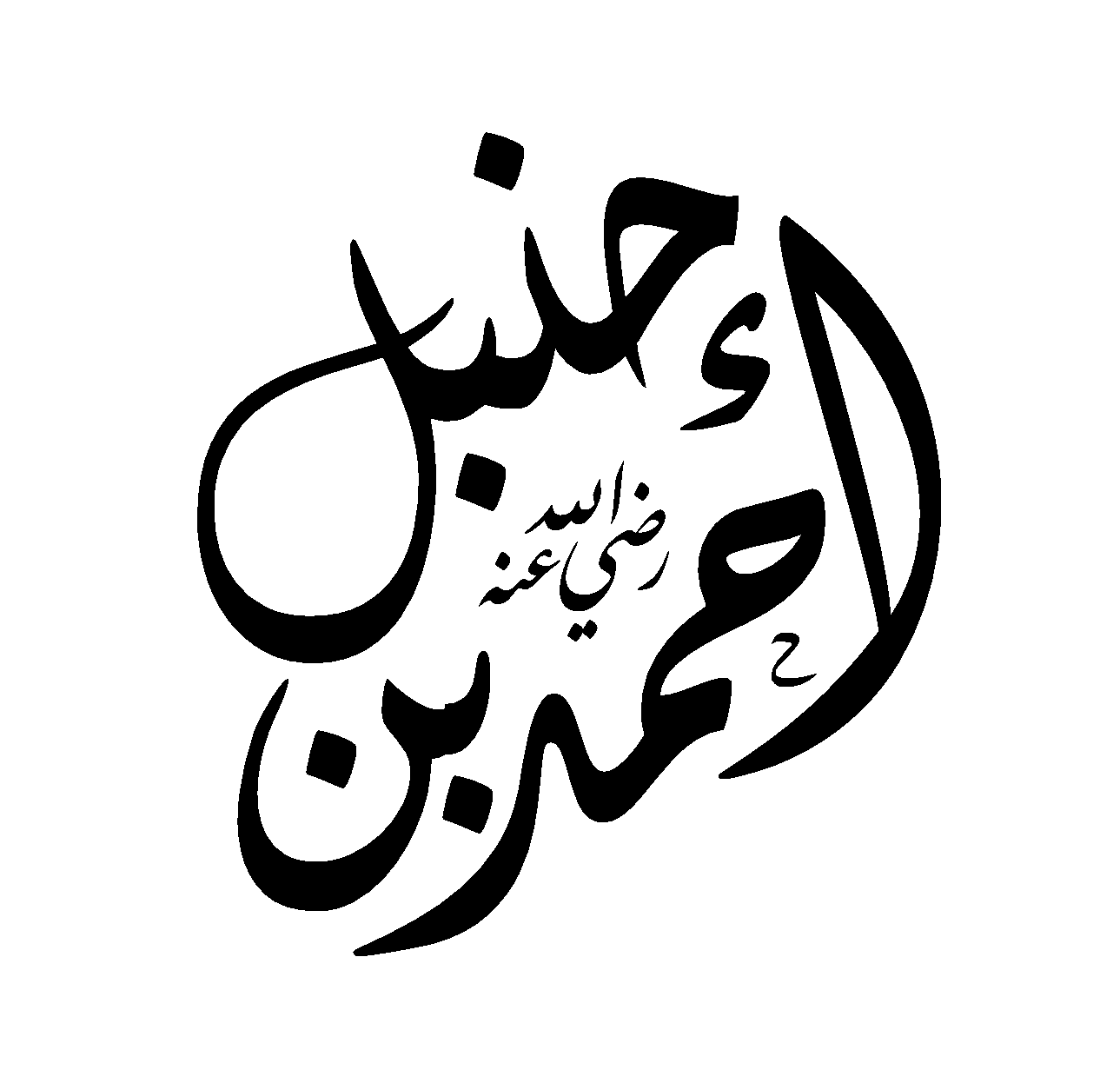 Ahmad ibn Hanbal's name in Arabic script